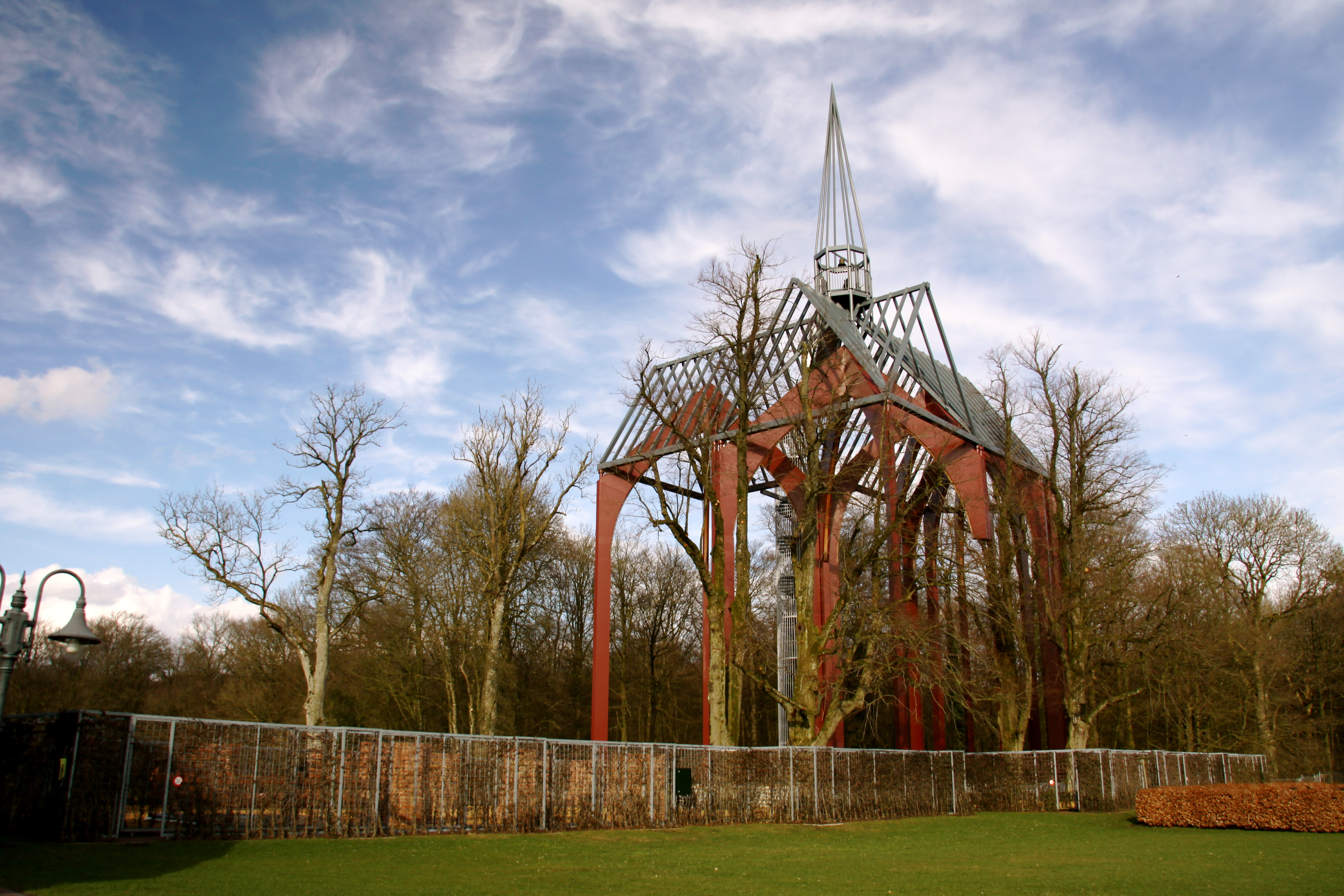 Imagination Kloster Ihlow